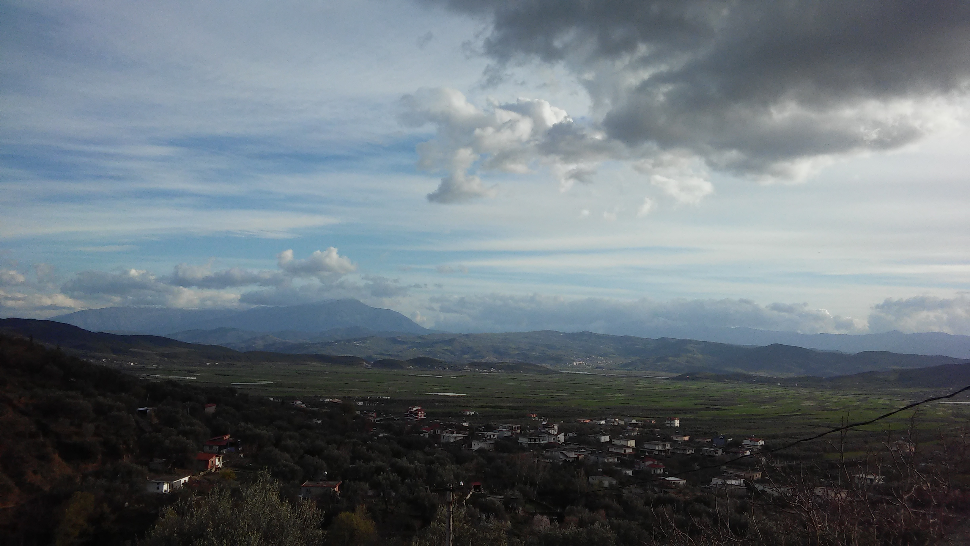 A View of small places around Cakran